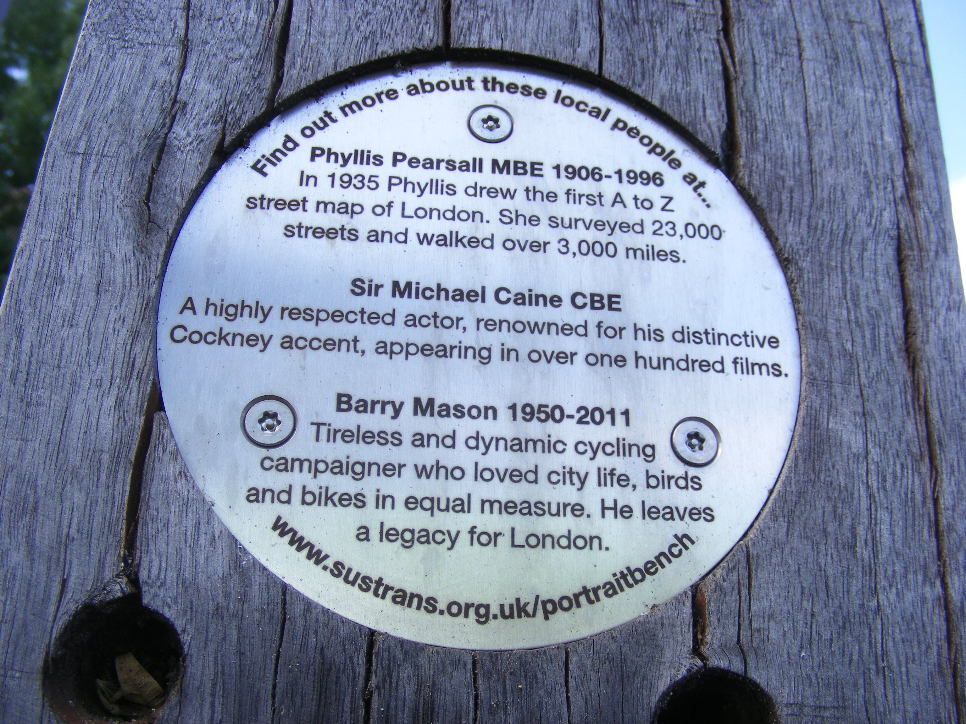 A commemorative plaque for Barry Mason (cyclist)